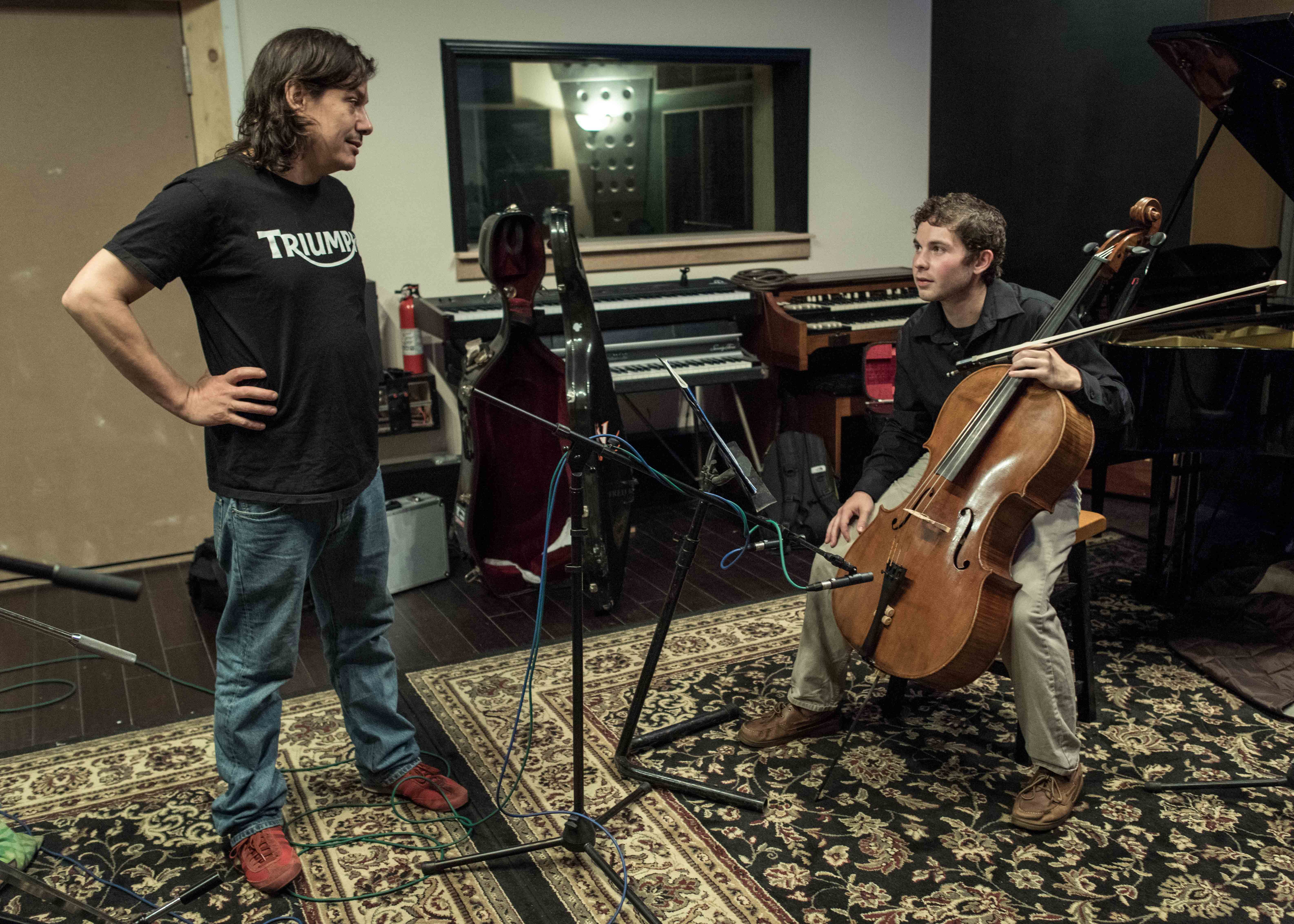 Production Still. Phillip Munck and recording engineer during the recording session of Honey Musk based on Thomas Jefferson’s music sheet found at Monticello, for the documentary “Unearthed and Understood” by Eduardo Montes-Bradley